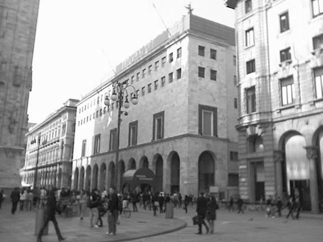 La Rinascente head store in Milan, near Piazza del Duomo. Formerly known as Magazzini Bocconi.